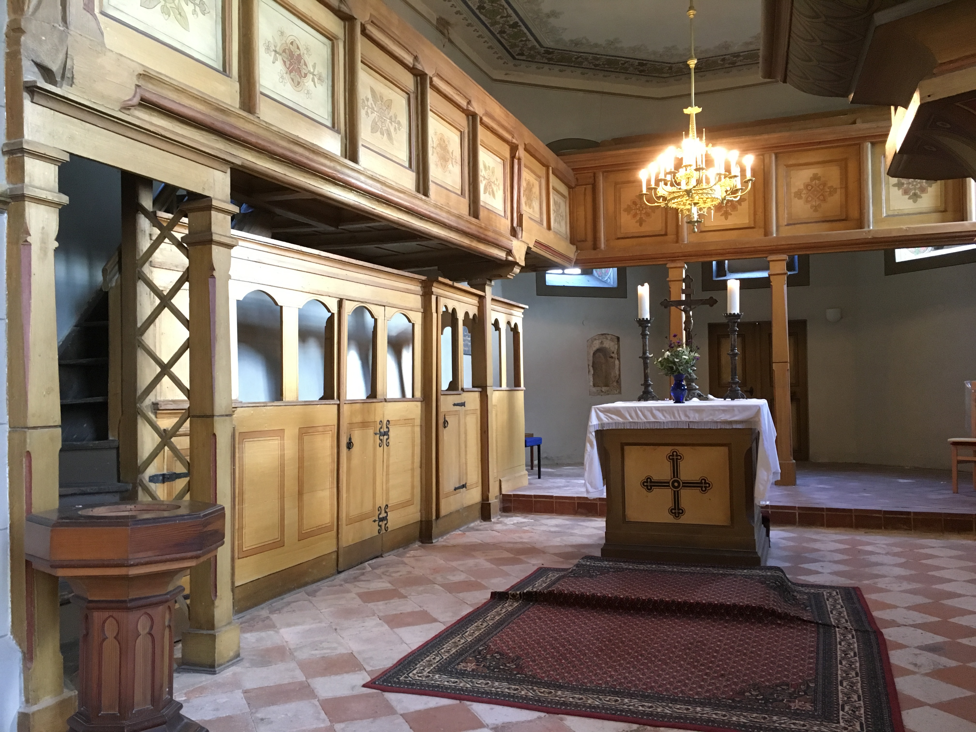 choir of St. Stephani church in Mehringen, Saxony-Anhalt, Germany